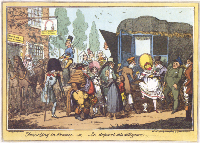 Travelling in France: Mail coach departure